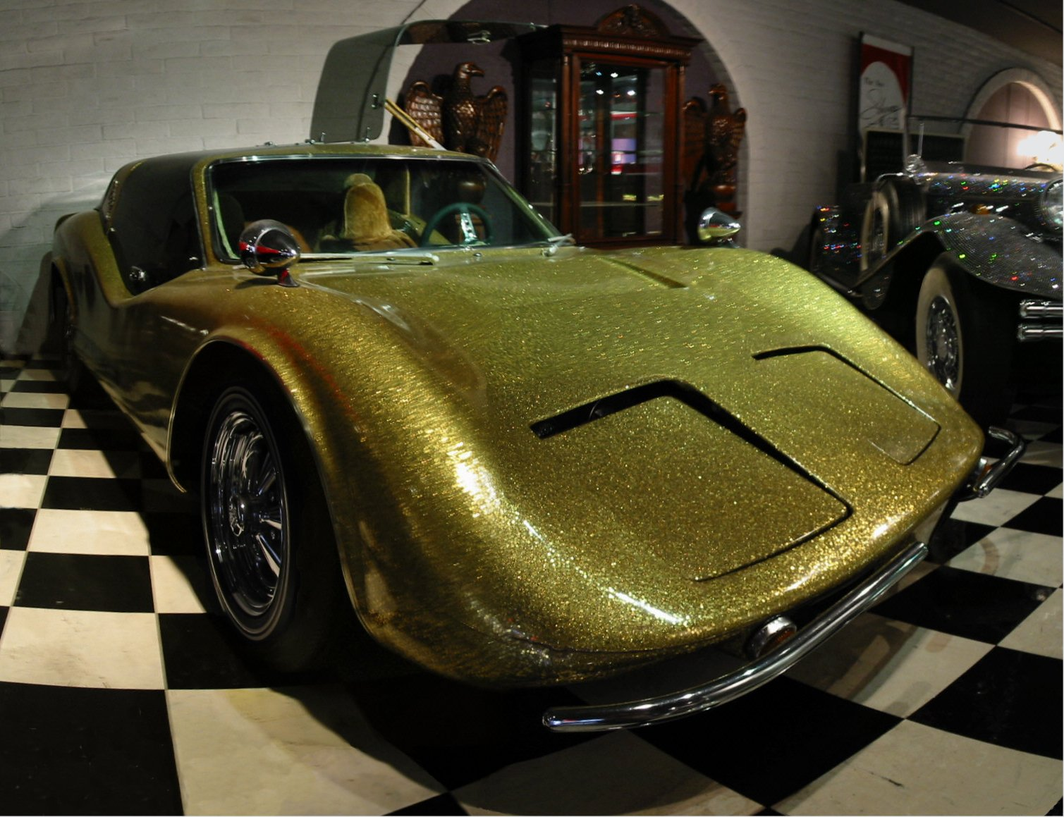 A 1972 Bradley GT decorated for Liberace in gold metal flake finish. Image is a matrix mosaic stitched together from several snaphots.